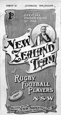 Programme of the third test, Australia v New Zealand at NSW, published by the NSW Bookstall Co.